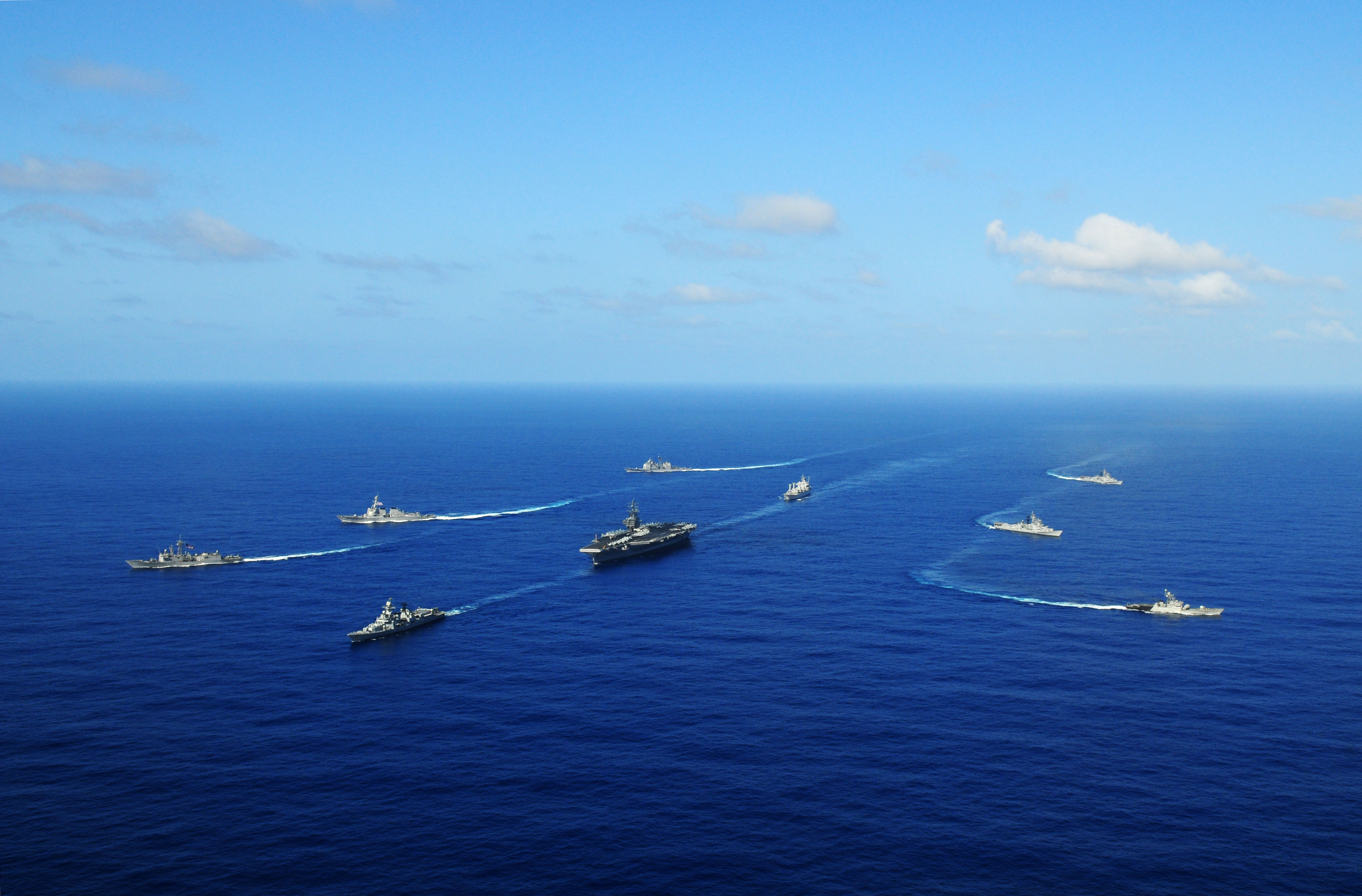 PACIFIC OCEAN (April 10, 2011) The aircraft carrier USS Ronald Reagan (CVN 76) and ships from the Ronald Reagan Carrier Strike Group and the Indian navy transit the Pacific Ocean during exercise Malabar 2011, a bilateral training operation with the Indian navy. Ronald Reagan is operating in the western Pacific Ocean. (U.S. Navy photo by Mass Communication Specialist 3rd Class Kevin B. Gray/Released)